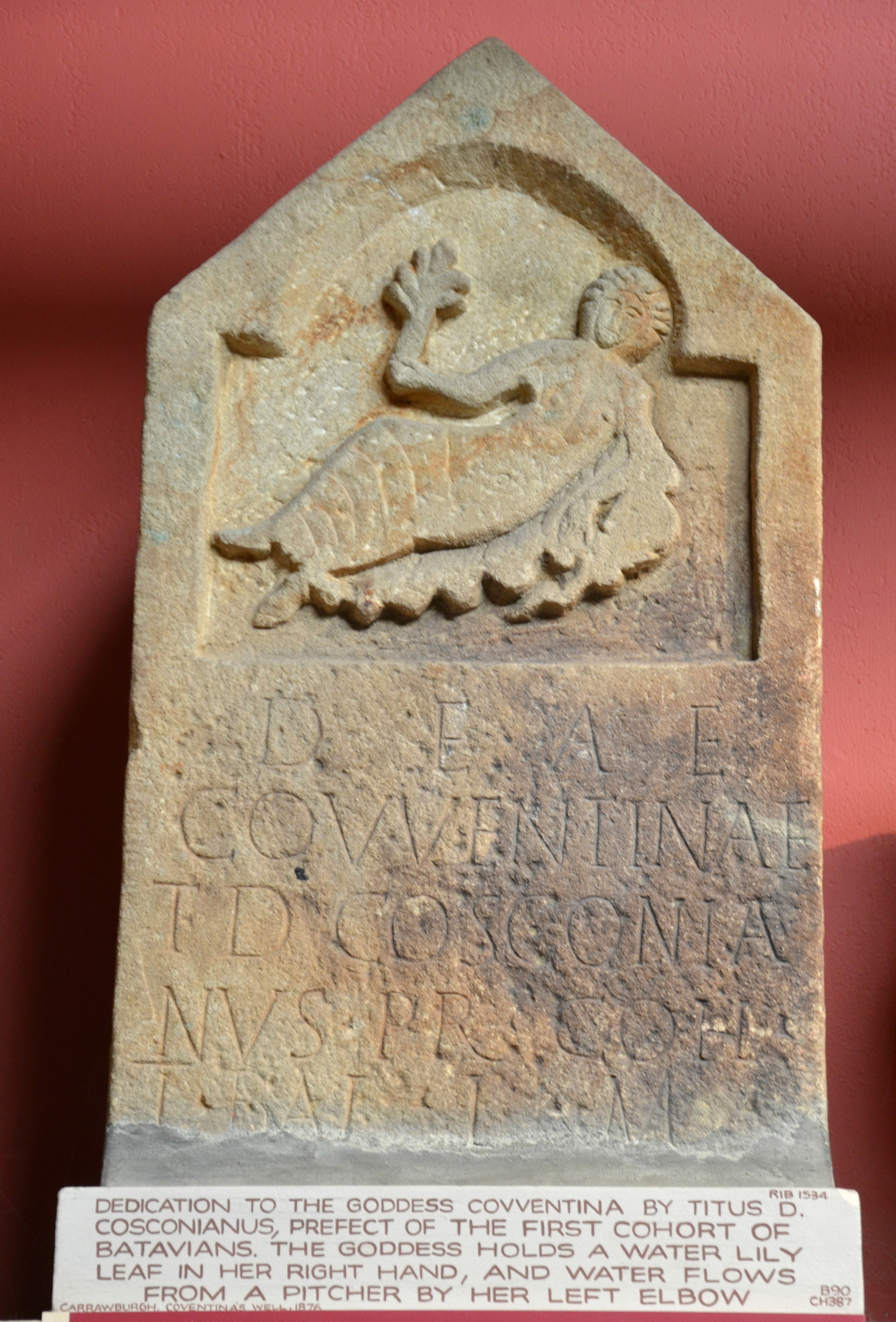 Clayton Museum, Chesters Roman Fort, Hadrian's Wall. Coventina was a Roman-British goddess of wells and springs.